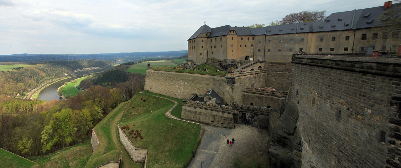 Königstein Fortress is one of the largest hilltop fortifications in Europe with more than 50 buildings, some over 400 years old, that bear witness to the military and civilian life in the fortress. The rampart run of the fortress is 1,800 metres long with walls up to 42 metres high and steep sandstone faces. In the centre of the site is a 152.5 metre deep well, which is the deepest in Saxony and second deepest well in Europe.